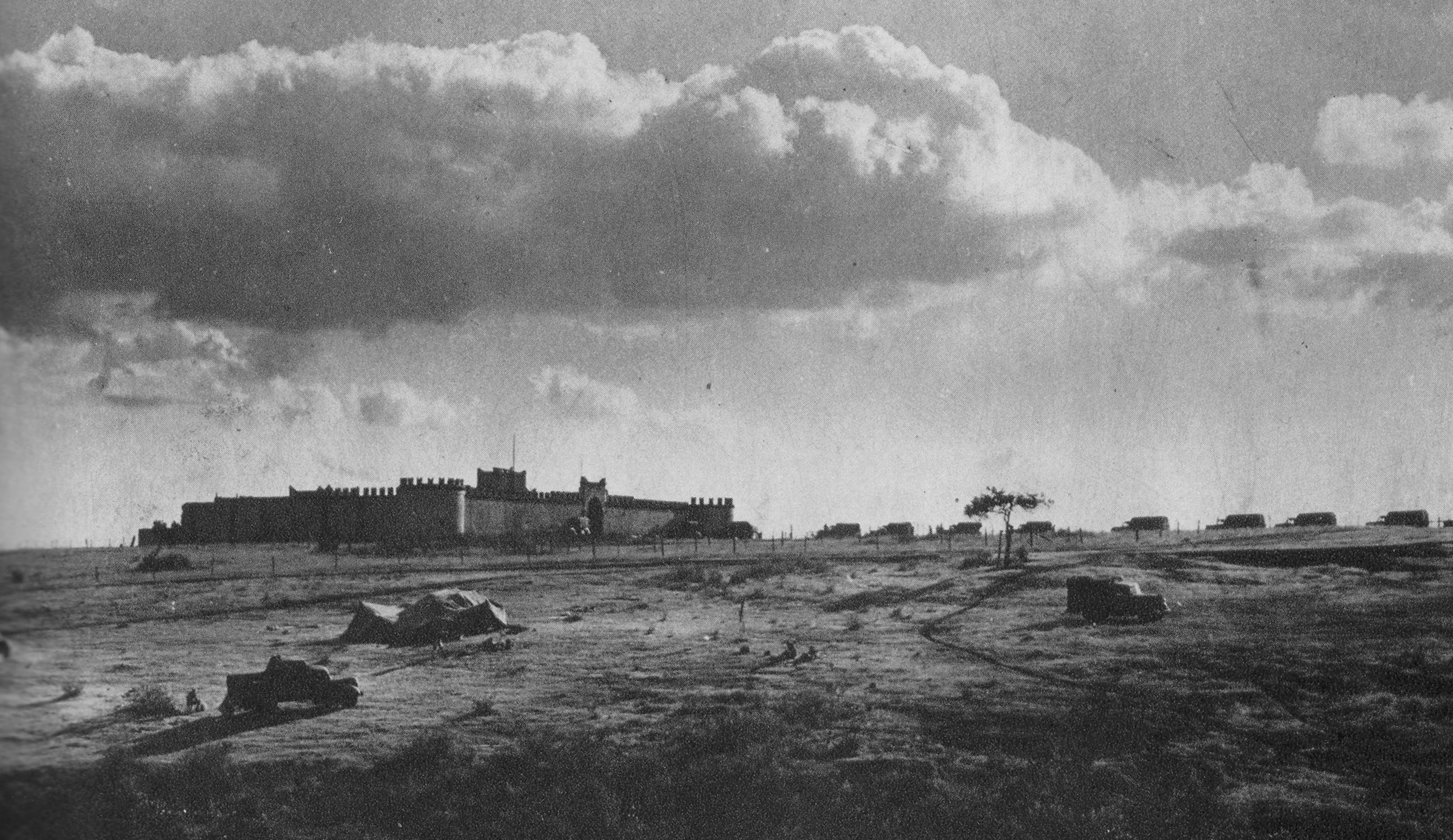 Mega Fort in Ethiopia prior to the attack by the South African 1st Infantry Division